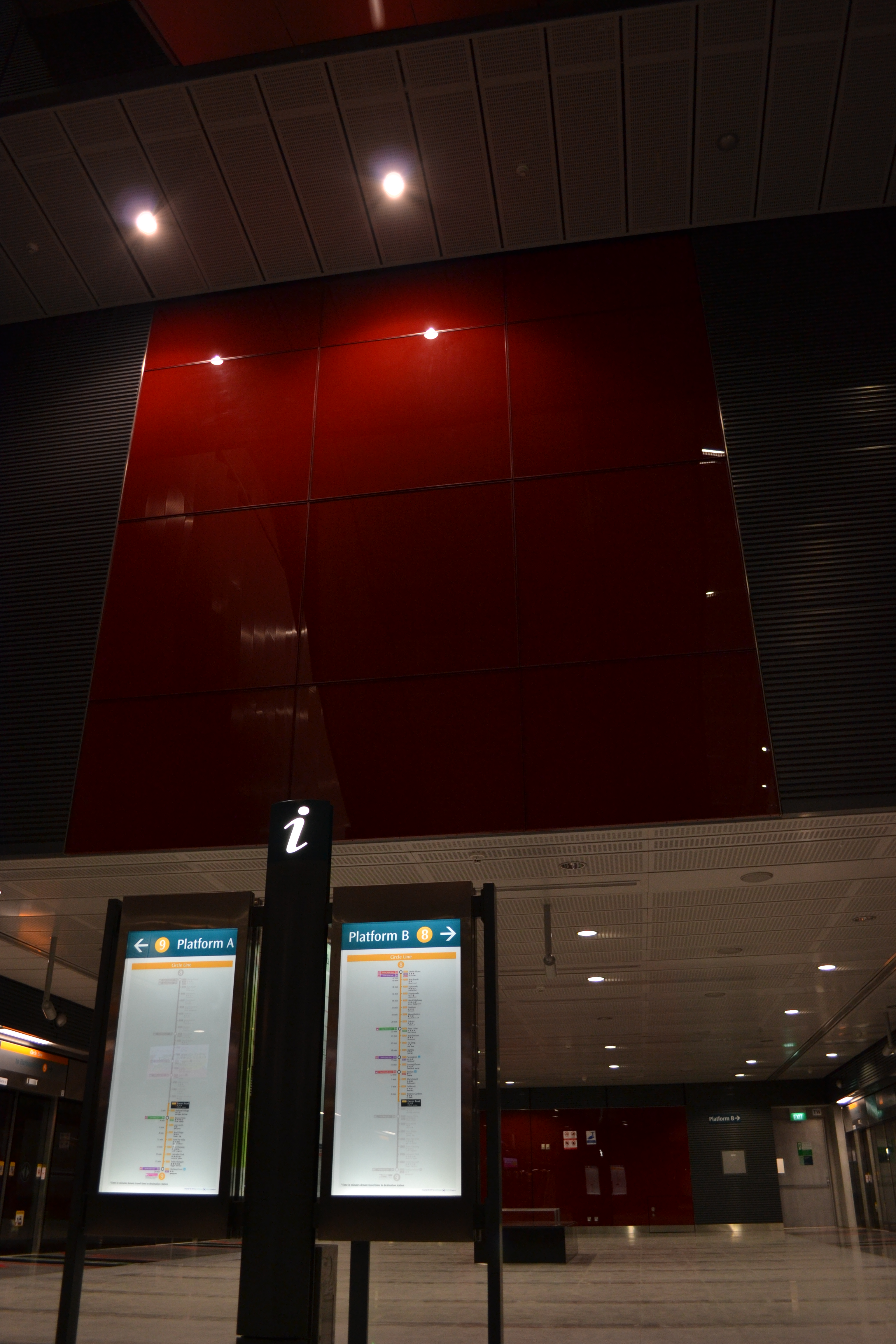 Platform level of Farrer Road